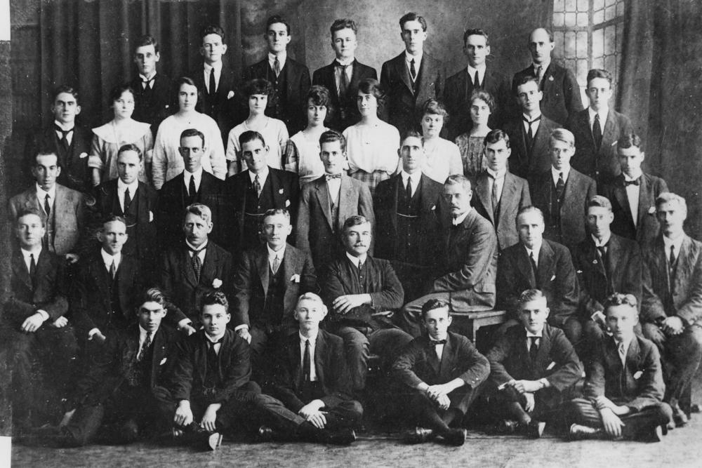 Staff members of the Bank of Queensland, Brisbane, 1922. This staff photograph was taken at the amalgamation of the Bank of Queensland with the National Bank of Australia. From left to right. Front row : C. Bennetts, A. Foreman, S. Walker, L. Staines, N. Petersen, C. Neville. Second row: D. Vaughan, L. Spooner, A. J. Mosely, W. Moffat, E. H. Matthews, H. Fawcett Smith, J. H. Peterson, C. H. Russell, C. L. von Lossberg. Third row: P. Ramsay, V. L. Zillman, W. Hamilton, P. Moxon, R. I. P. Wood, J. Neil, P. Heffernan, W. Meek, I. L. Campbell. Fourth row: E. J. O'Shea, Misses M. Freudenberg, Rene Smith, J. Teasdale, E. Jarrott, D. Meggitt, T. Shaw, J. Rolls, Messrs. R. Wildey, H. A. Mosely. Back row: W. Guest, C. O'Hare, C. R. T. Foote, S. Ryan, R. Ford, A. J. Eligh, P. Palmer. (Description supplied with photograph.).